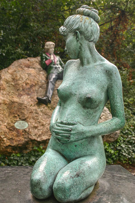 Statue of Constance Lloyd apparently looking towards her husband, Oscar Wilde.